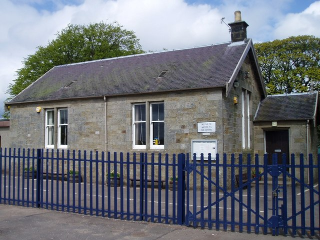 Walston Primary School. Still in use as a school.